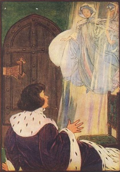 Illustration from The Little Lame Prince and His Travelling Cloak by Dinah Maria Mulock illustrated by Hope Dunlap 1909